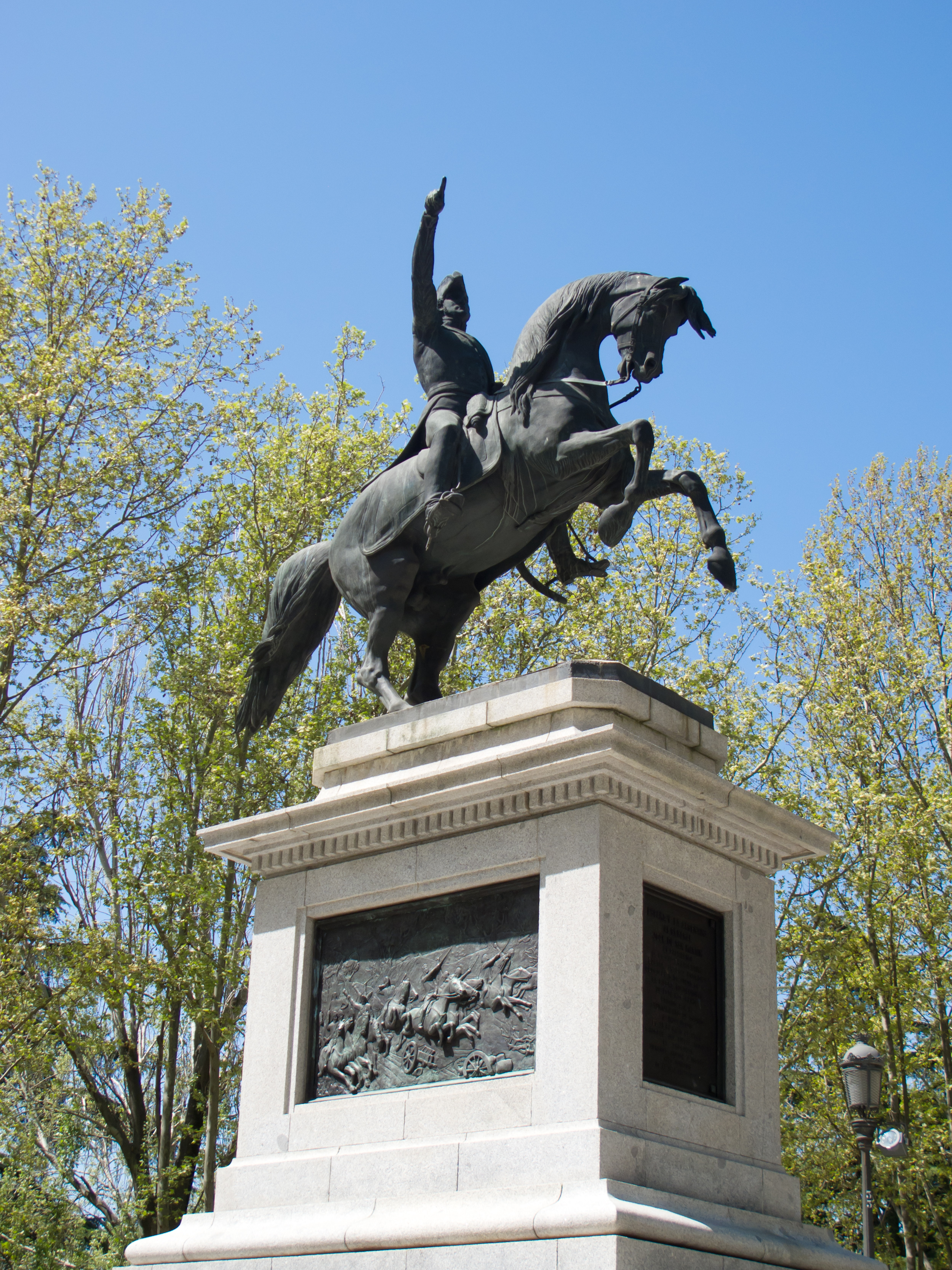 Monument to José de San Martín, West Park, Madrid.